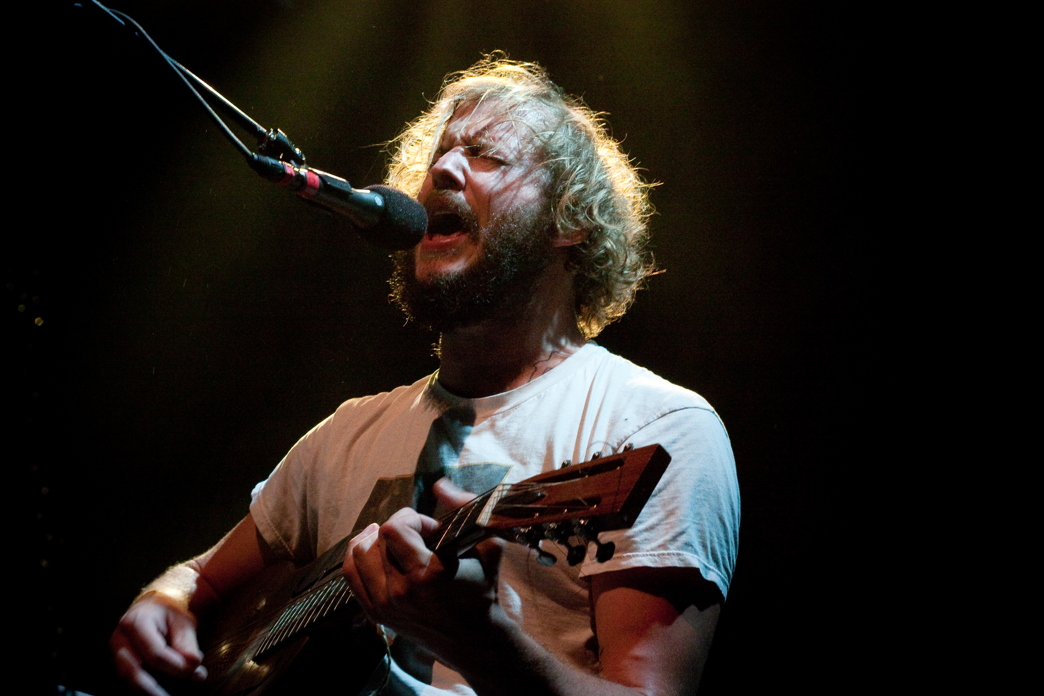 Bon Iver performing at The Fillmore